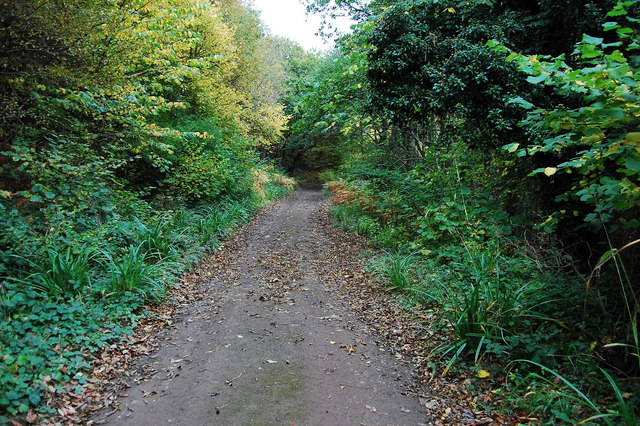 Grinkle mine abandoned tramway It's hard to believe now, but this is the old tramway trackbed that ran from the mine to the harbour at Port Mulgrave. The line turned sharply to the right further down; it then crossed an embankment built to carry the line across the Easington Beck. The Ridge lane tram tunnel is situated just the other side of the embankment. Full size pictures, history and maps of Grinkle iron mine can be seen here*